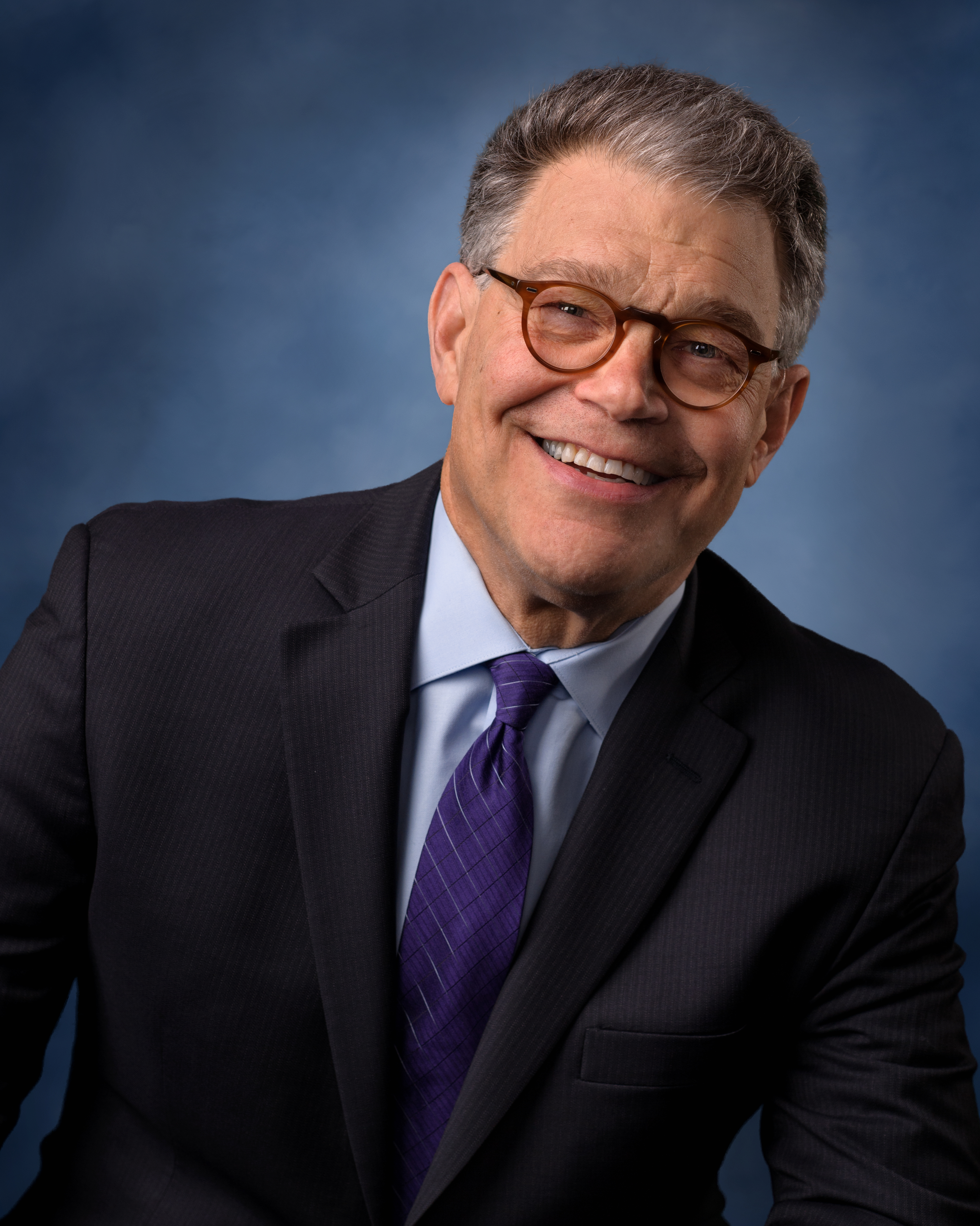 Official portrait of U.S. Senator Al Franken (D-MN)